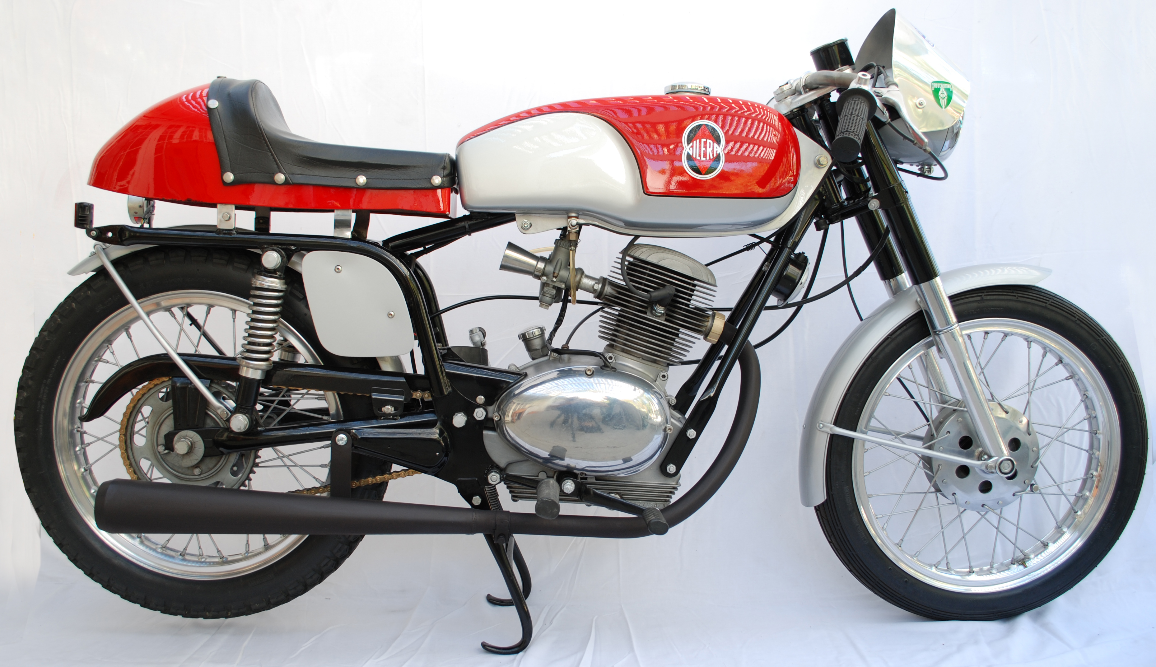 Gilera 125 cc. CR5S